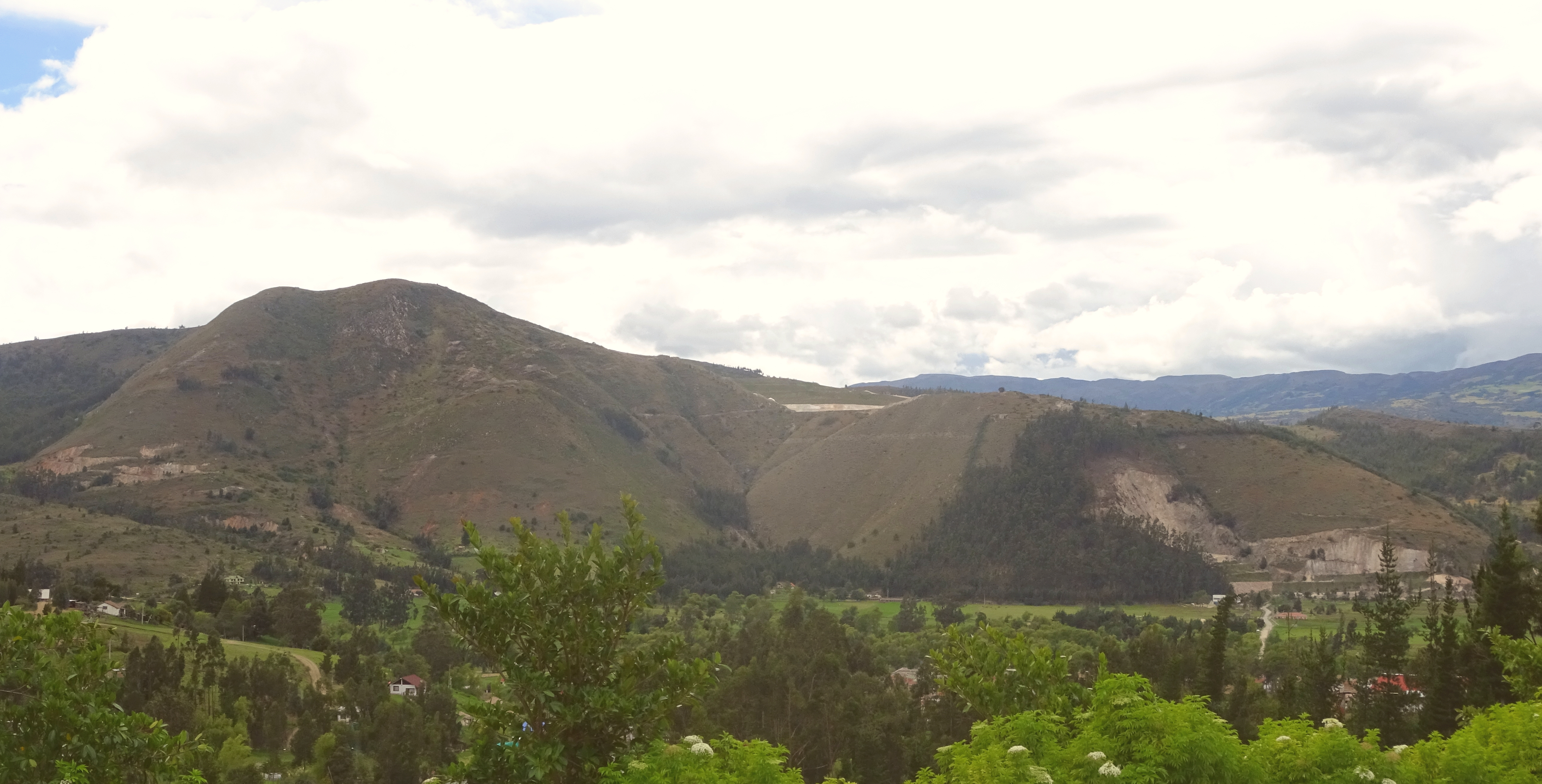 Iza Domes - View from east of the Paipa-Iza volcanic complex in Boyacá, Colombia.